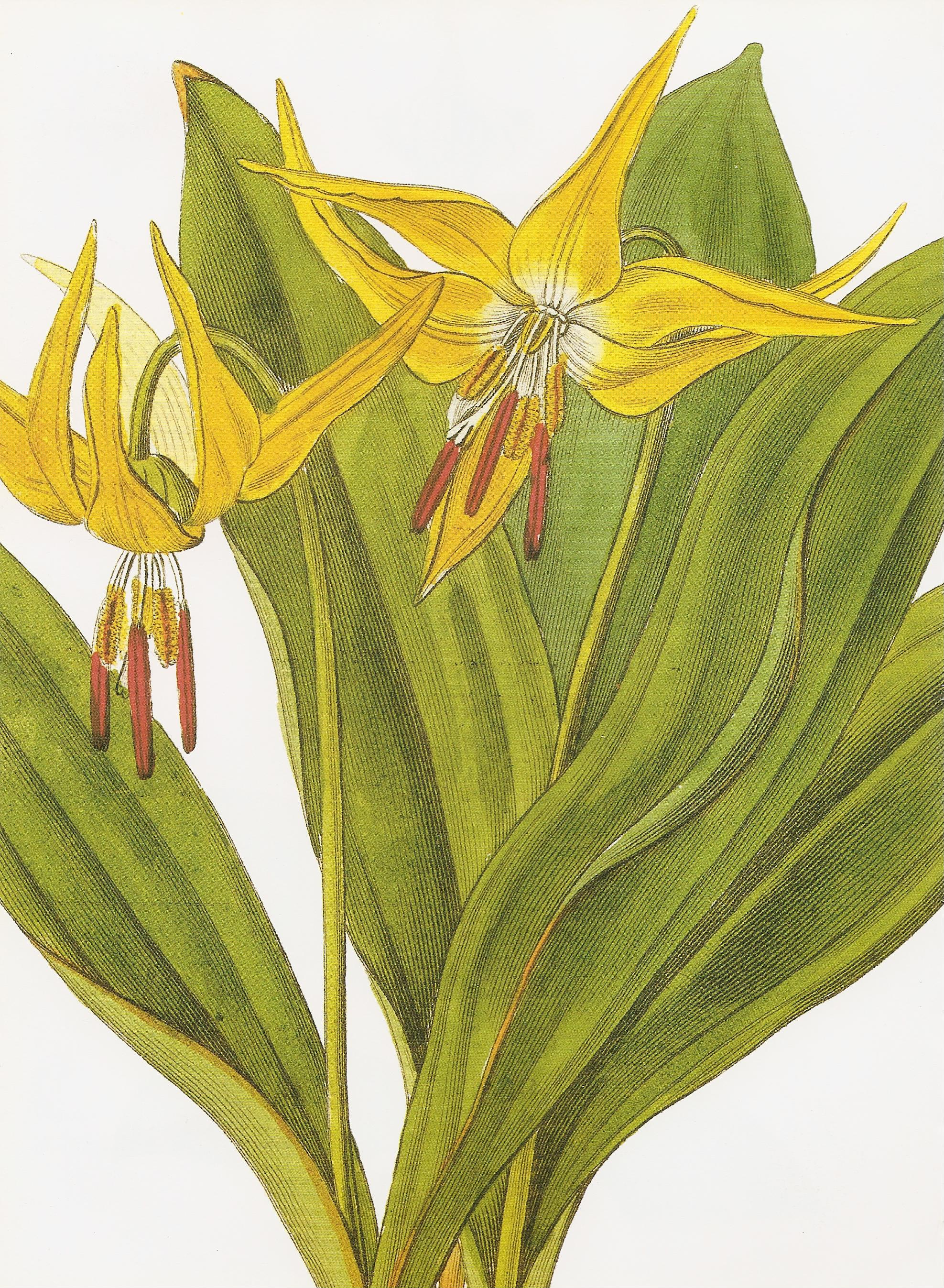 Erythronium grandiflorum, a hand-coloured engraving after a drawing by Miss S. A. Drake (fl. 1820s-1840s), from the 21st volume of the Botanical Register (1836), edited by John Lindley. This plant was discovered by the Horticultural Society's collector David Douglas and named by Lindley.